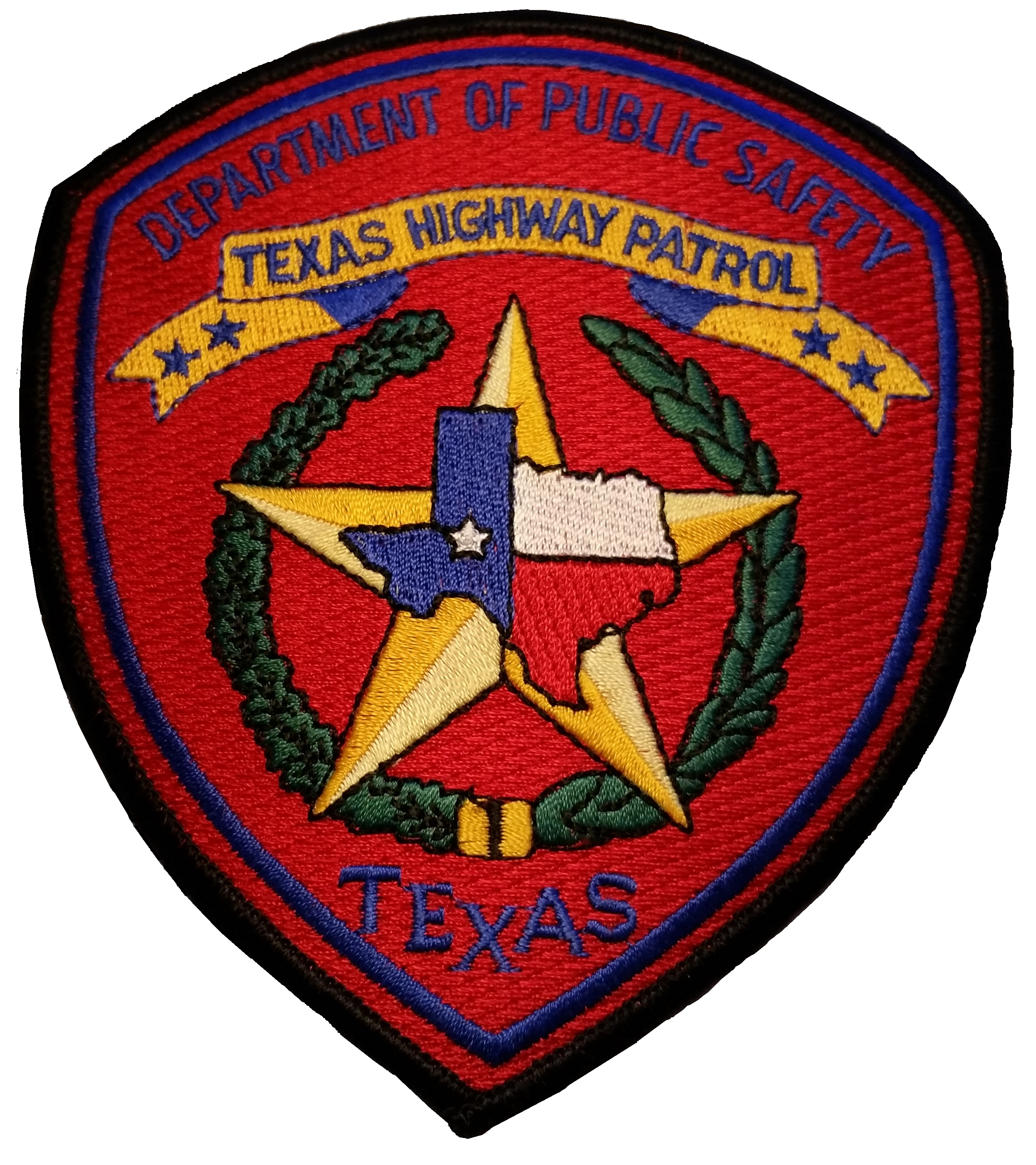 Photo taken of THP patch